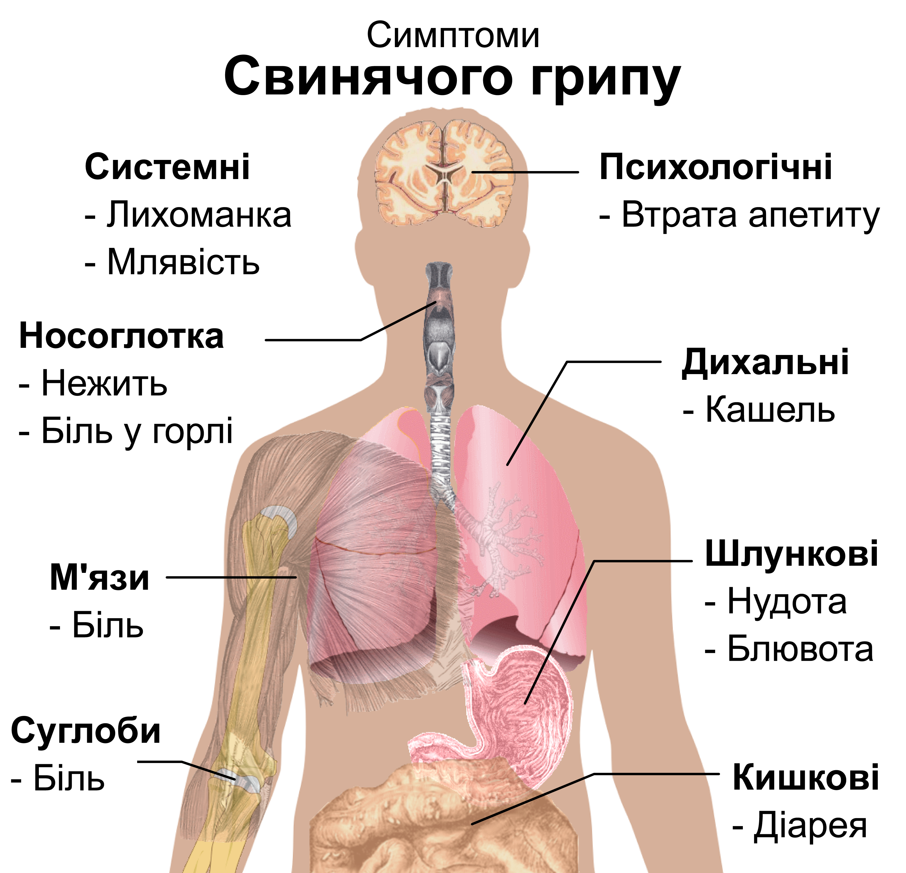 Swine flu symptoms in Ukrainian language